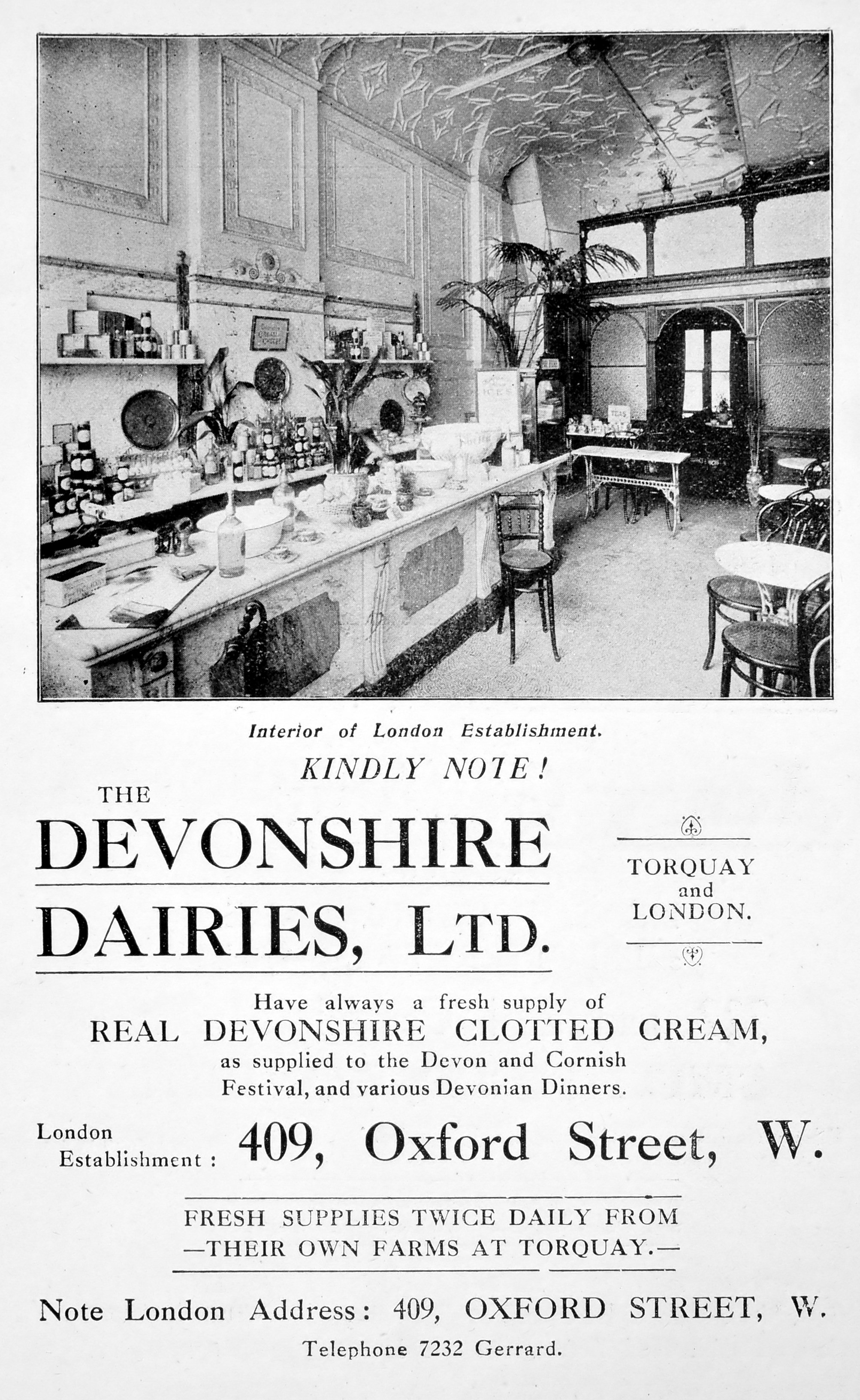 An advertisement for The Devonshire Dairies Ltd